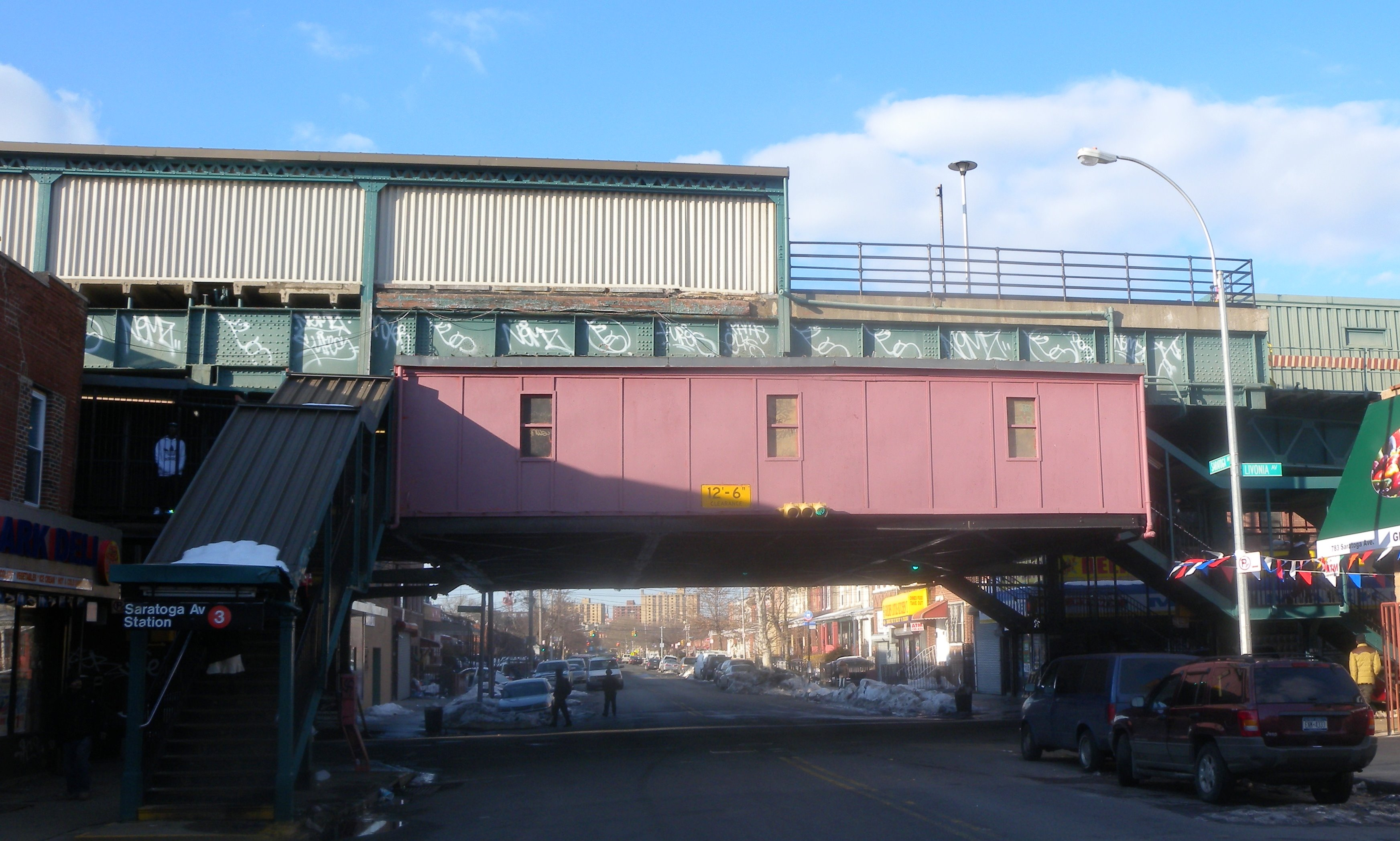 Looking north at Saratoga Avenue station on the Livonia line on a sunny afternoon.